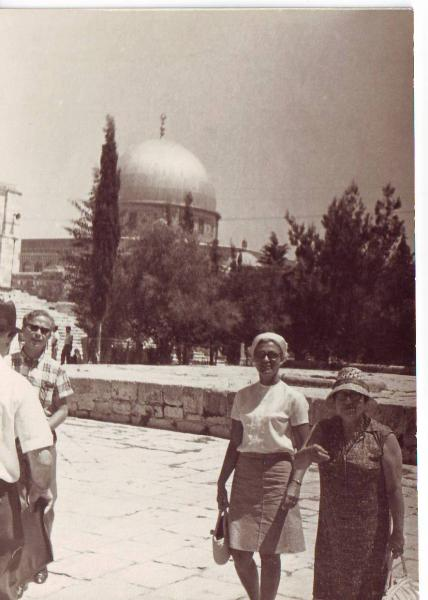 An Israeli family visiting the Temple Mount (Har Ha-Bayit/Al-Haram A-Sharif) in Jerusalem, in July 1967, shortly after the Six Day War.